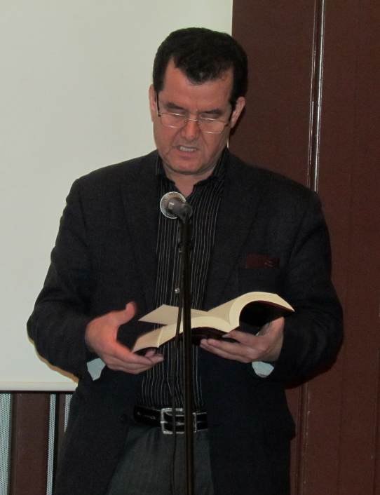 Ferhad Shakely is reading one of his poems during a remembrance of Halabja in AF-borgen in Lund, 16 March 2011.